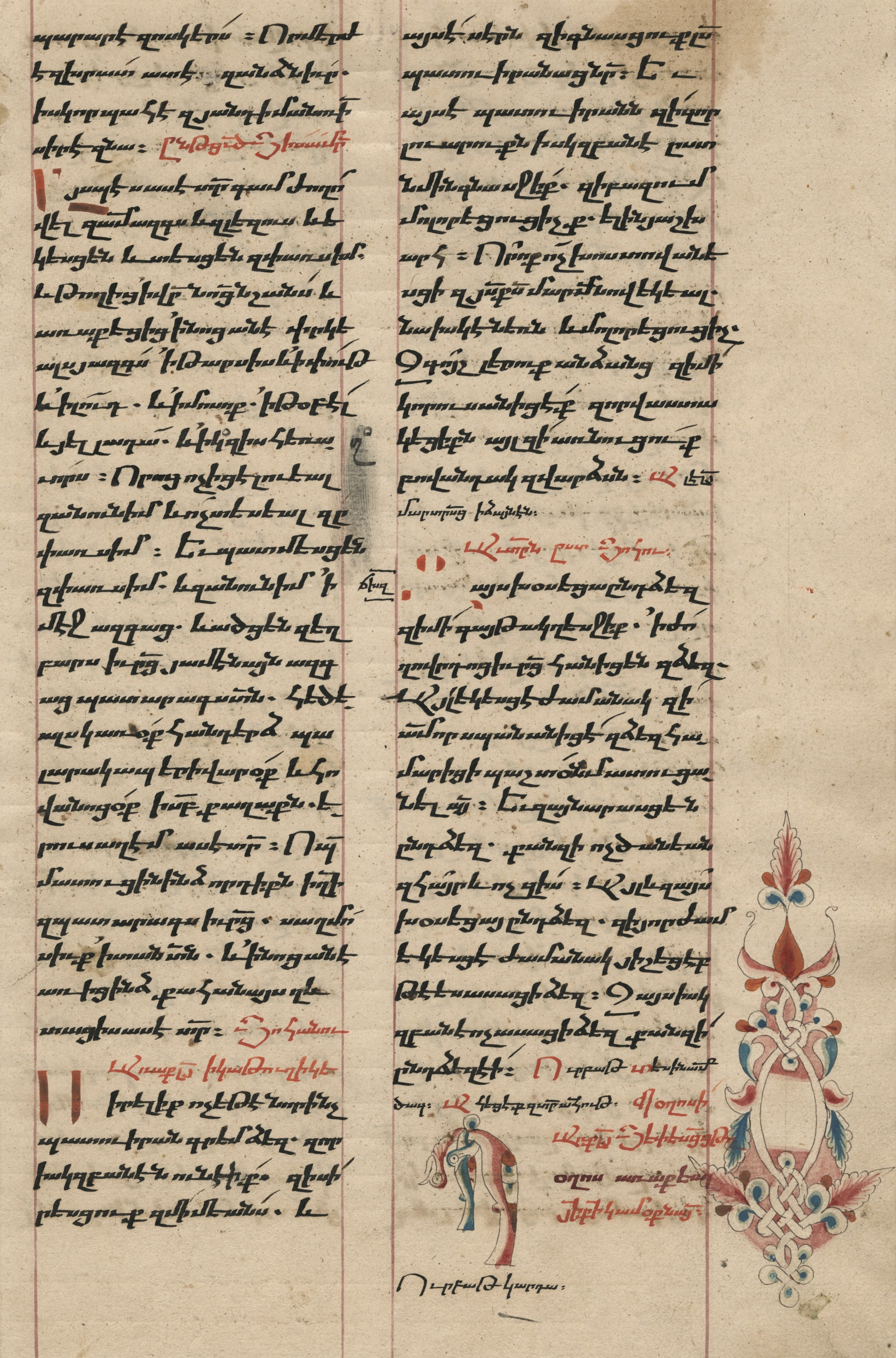 Armenian Manuscript Bible, 1121 A.D. Collection assembled by Otto F. Ege. St. John’s University Archives and Special Collections.